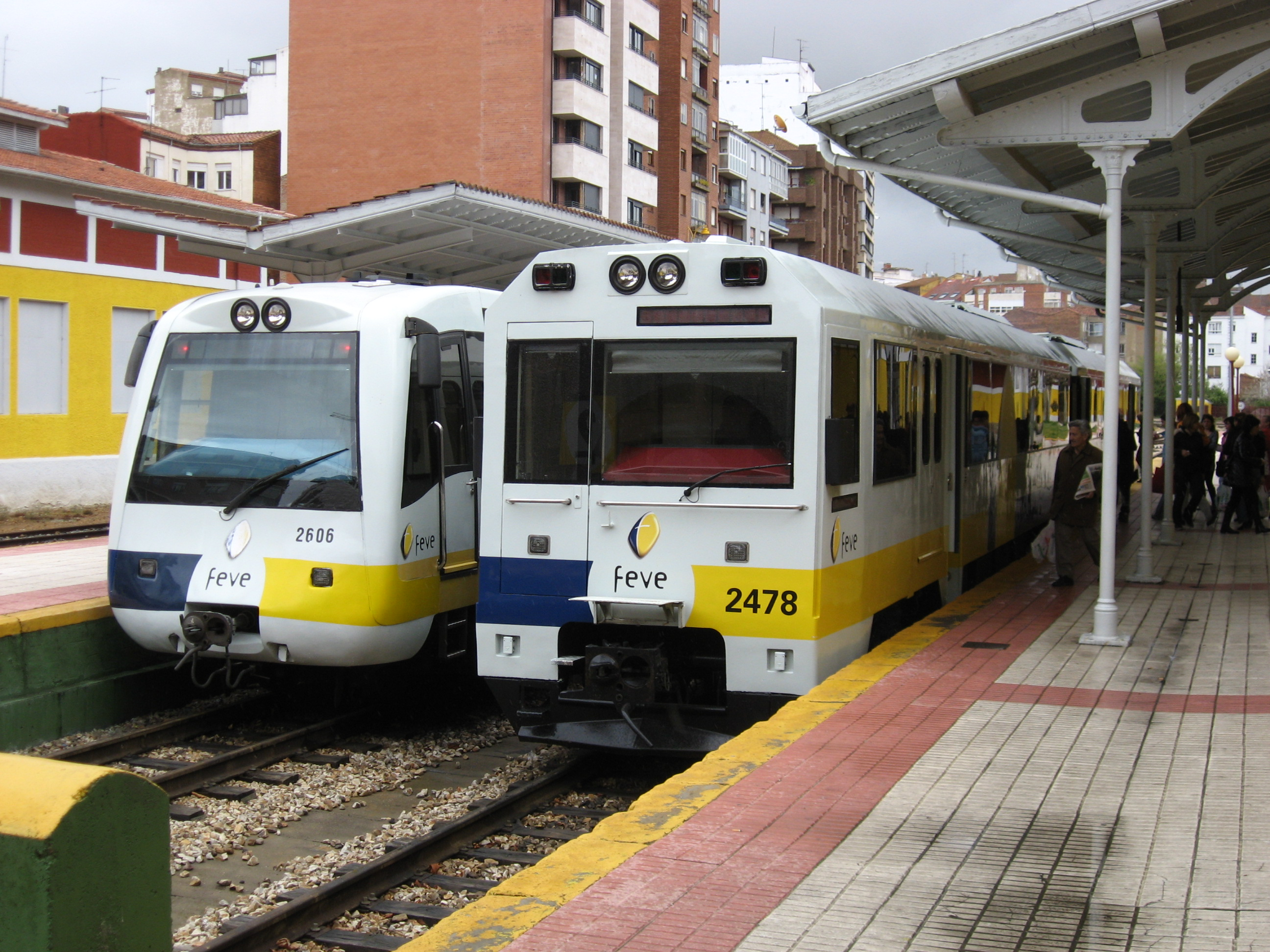 Leon FEVE station with the 2 types of diesel trainsets. Altitude: 841 meters.